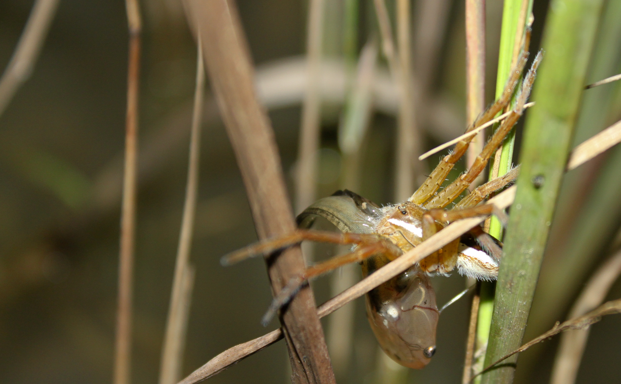 Cameroon Clawed Frog (Silurana epitropicalis) being eaten by a fishing spider (Dolomedes sp.). Libreville, Gabon.